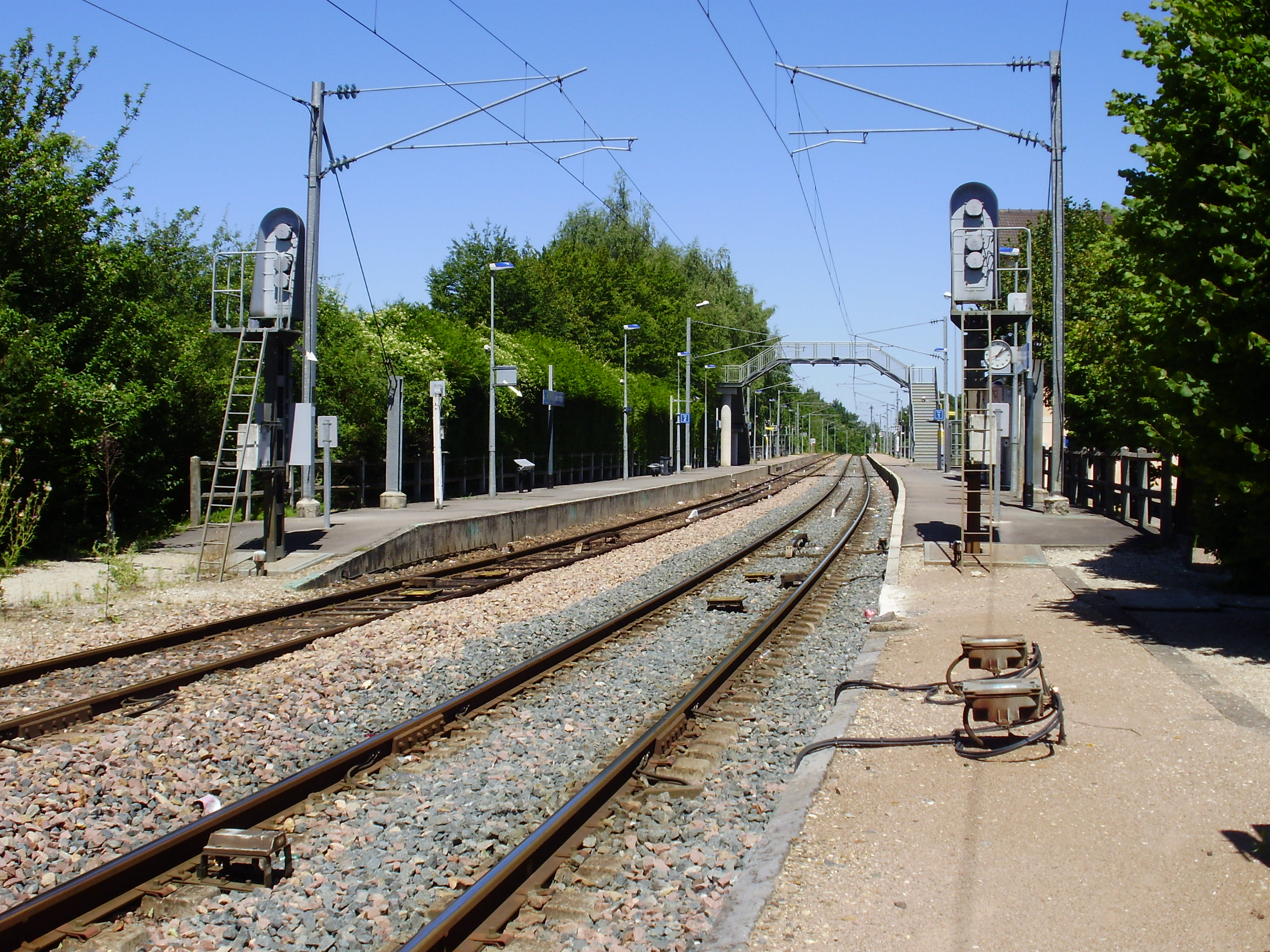 Mortcerf station, Seine-et-Marne, France [from the south extremity of the platforms (Paris side), view towards Coulommiers]